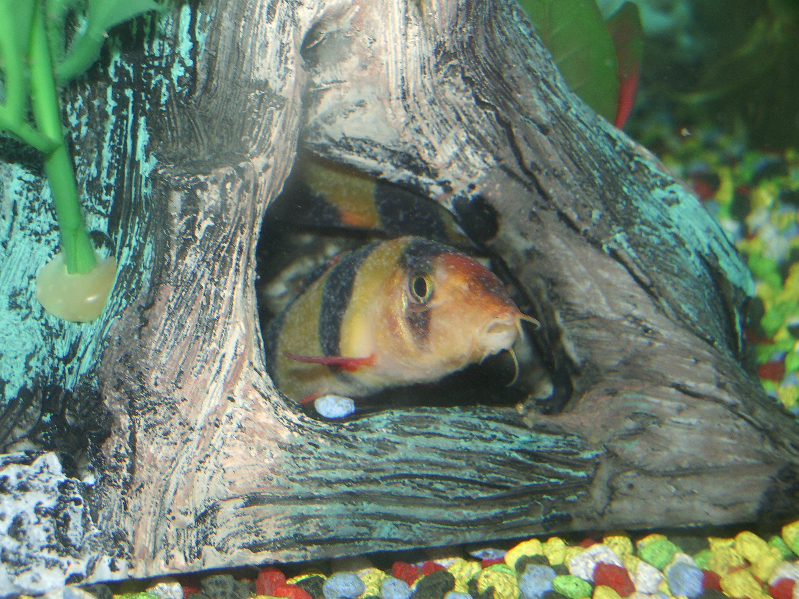 Two juvenile clown loaches with ich. The second can be seen hiding in the ornament.